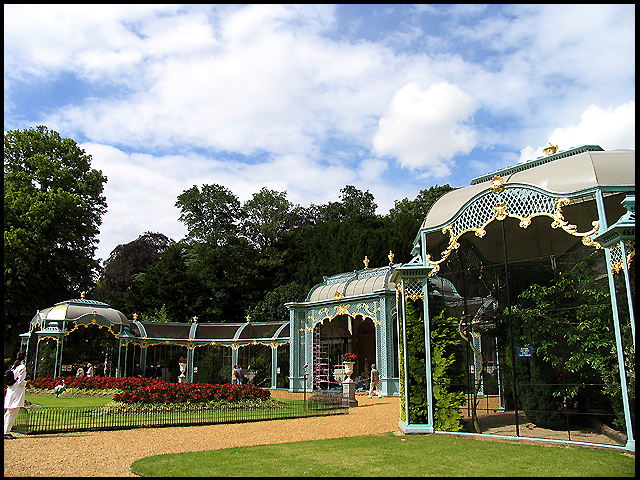 The Aviary at Waddesdon Manor: Buckinghamshire. This very impressive structure is not to be missed, as well as the interesting variety of birds it houses. The aviary is situated north west of the house.